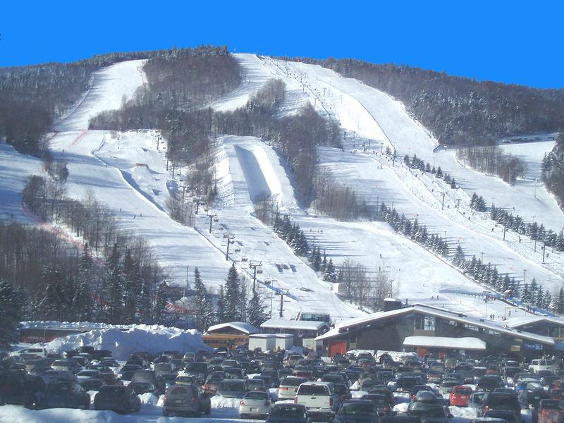 An image of the two main ski runs at Stoneham Ski resort for use on Stoneham Mountain Resort (not the best image, I realise that, but the best I could find)